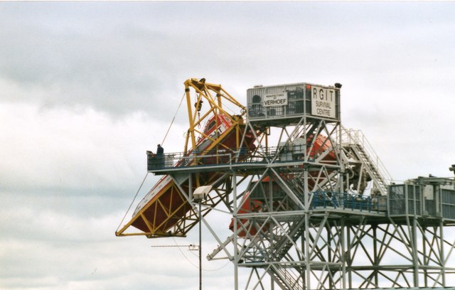 Freefall boats As part of the training for offshore oil workers these freefall lifeboats are based at Dundee. They are launched directly into the Tay without the use of fall wires as in conventional lifeboats. The impetus of their fall carries them well out even if the engine fails; an added advantage is escaping a burning oil rig or vessel.